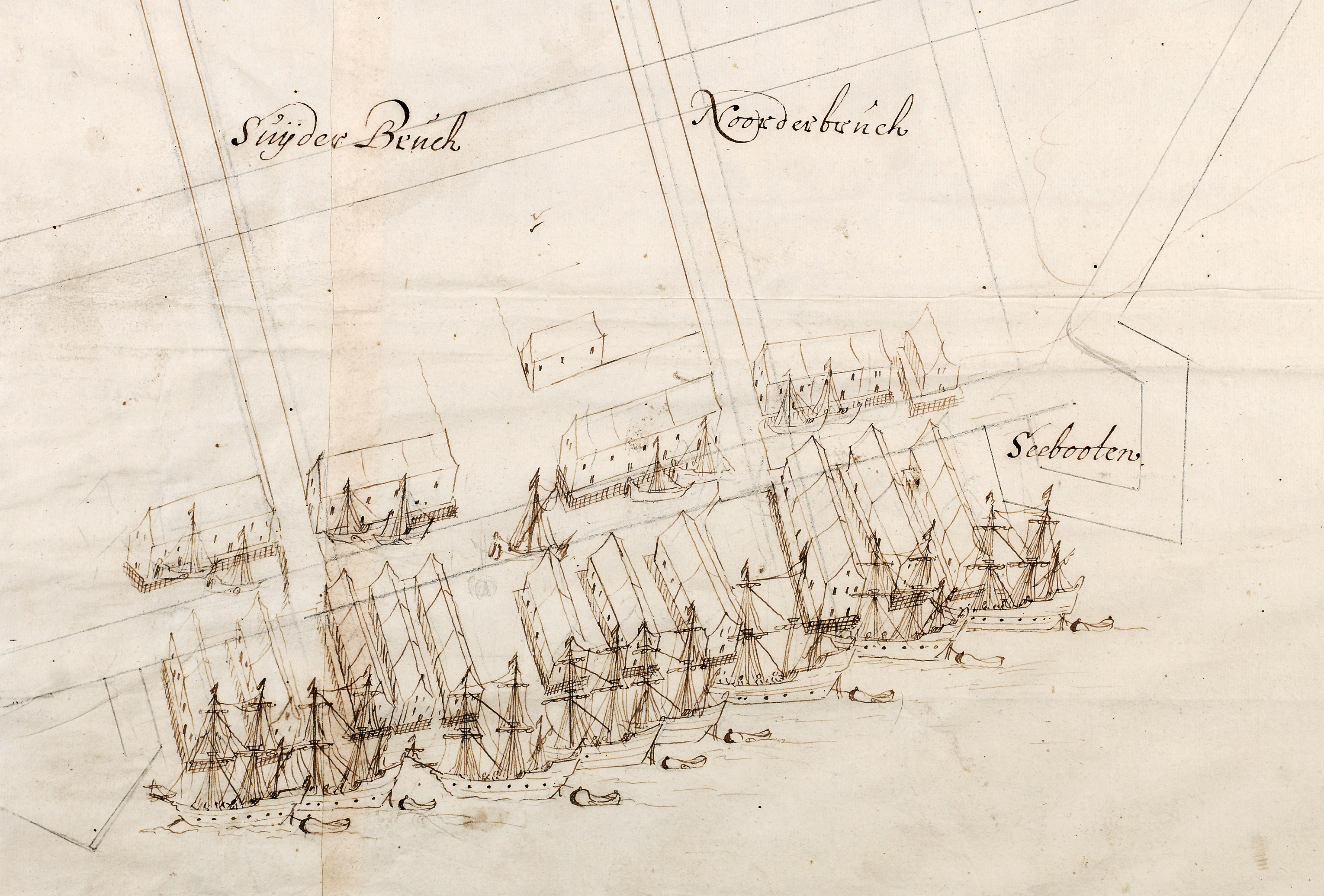 Harbor of Christiania (Oslo) in 1649, detail from a map by Isaac van Geelkerck in the Royal Library, Copenhagen. (Detail of photograph by Fotografisk Atelier, Det Kgl. Bibliotek, Copenhagen)